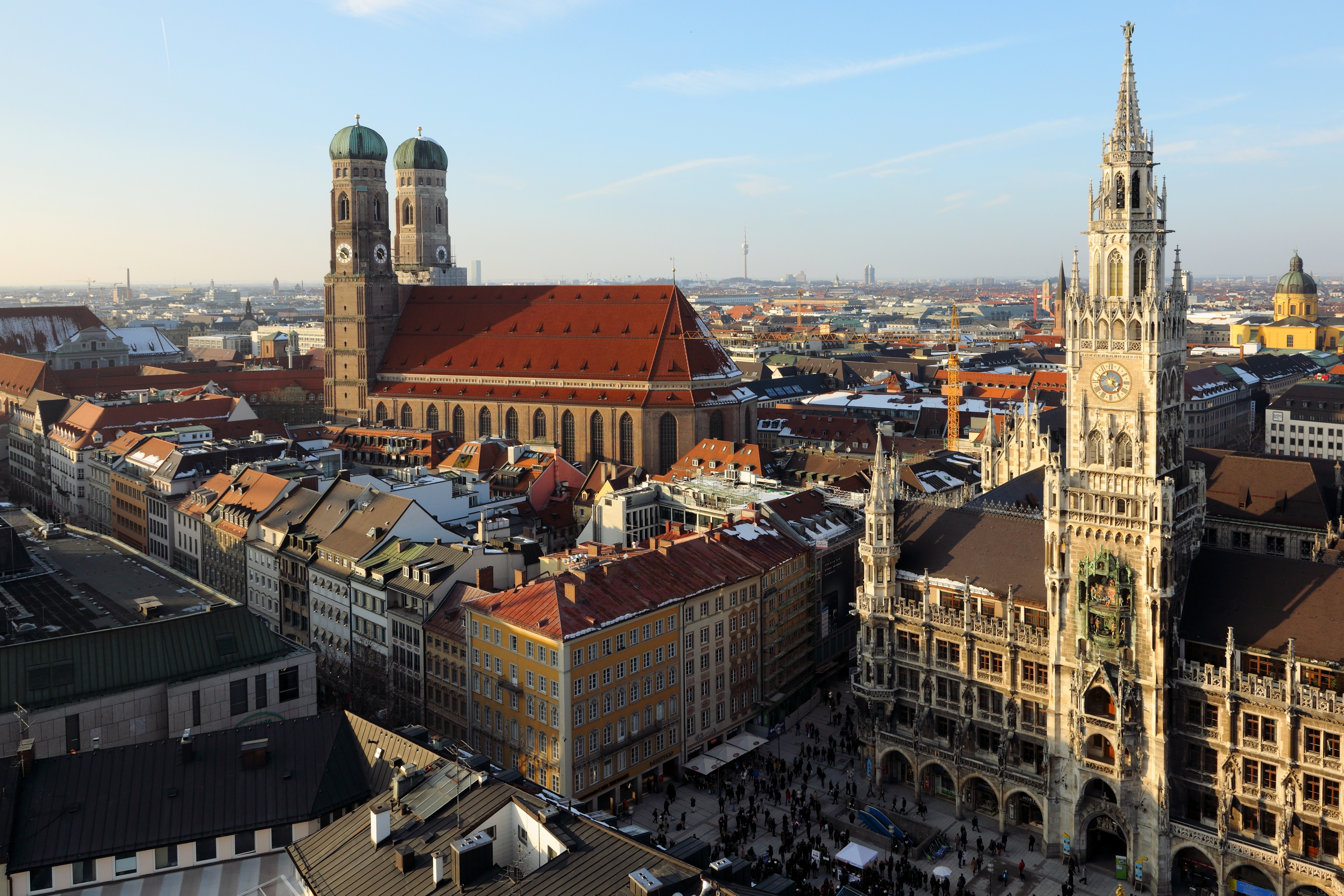 Frauenkirche and Neues Rathaus, Munich March 2013